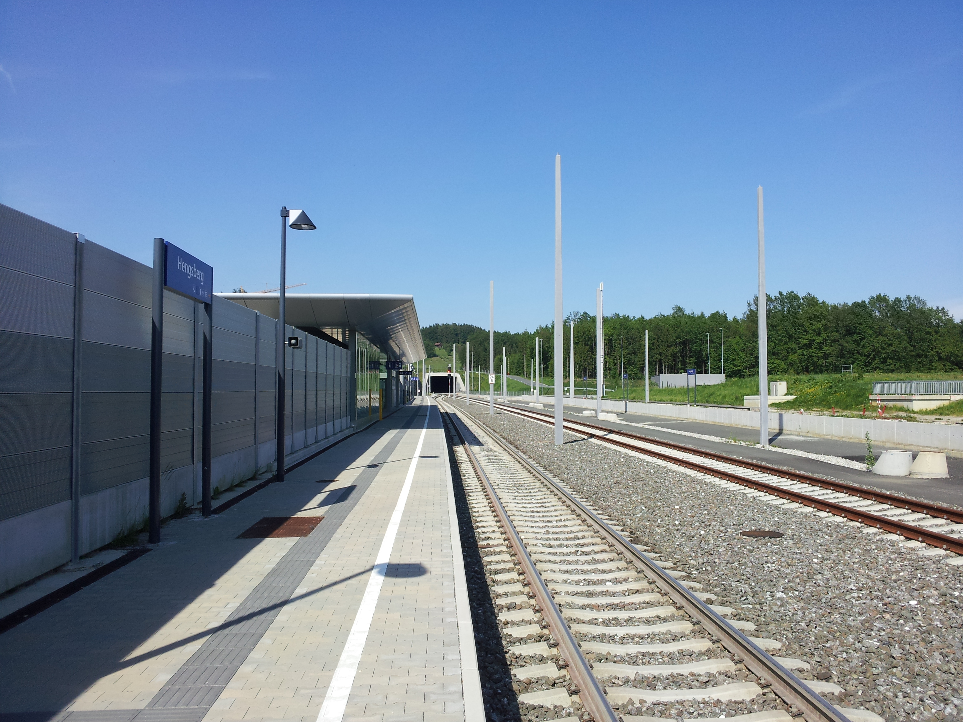 View at the southern portal of the Hengsberg tunnel - seen from Hengsberg station.